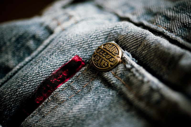 Closeup of a copper rivet on blue jeans.